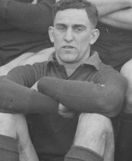 Photograph of Jack Lyngcoln in 1932